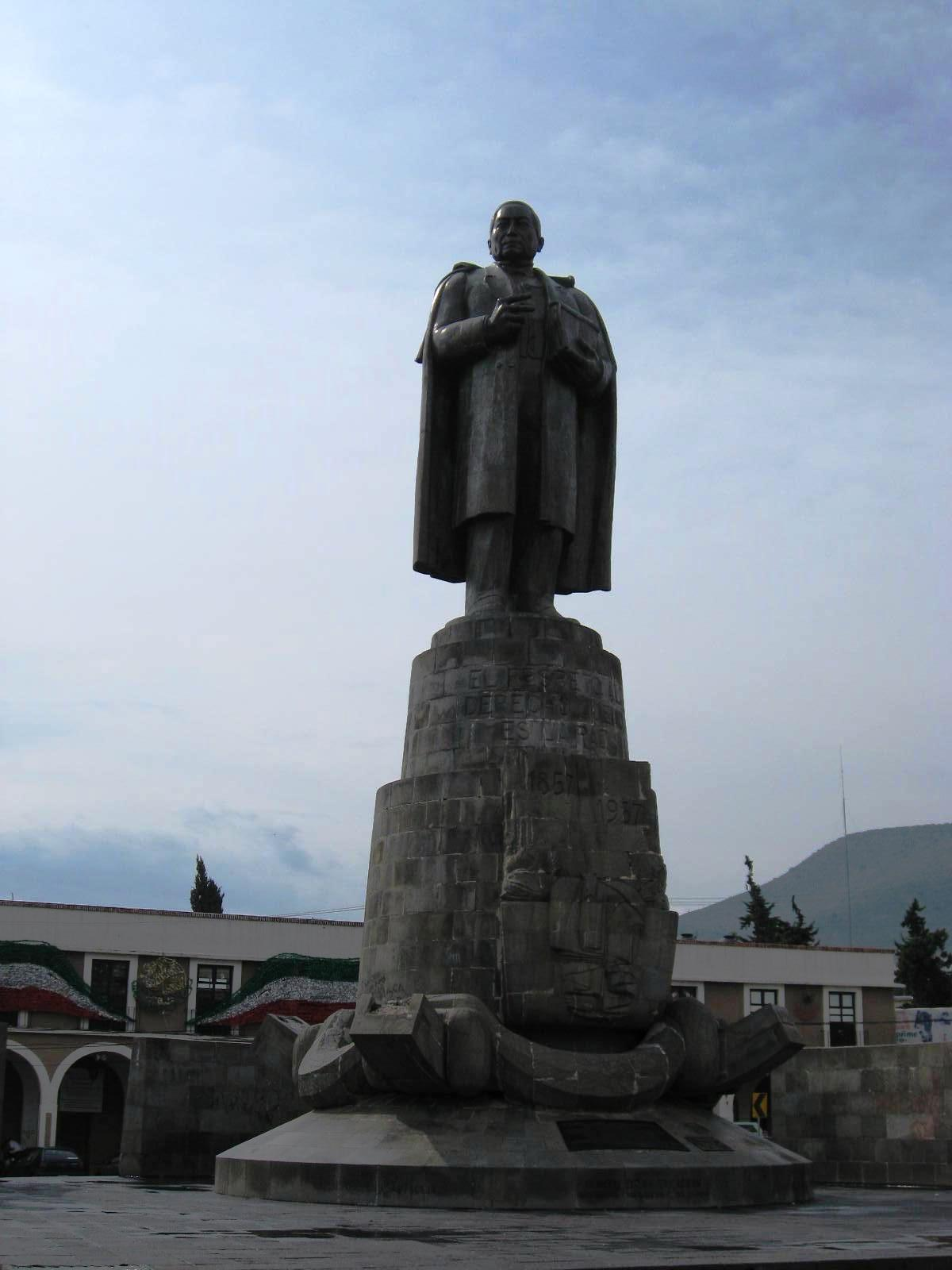 Statue of Benito Juarez located at Plaza Juarez in Pachuca, Mexico. Sculped by Juan Leonardo Cordero